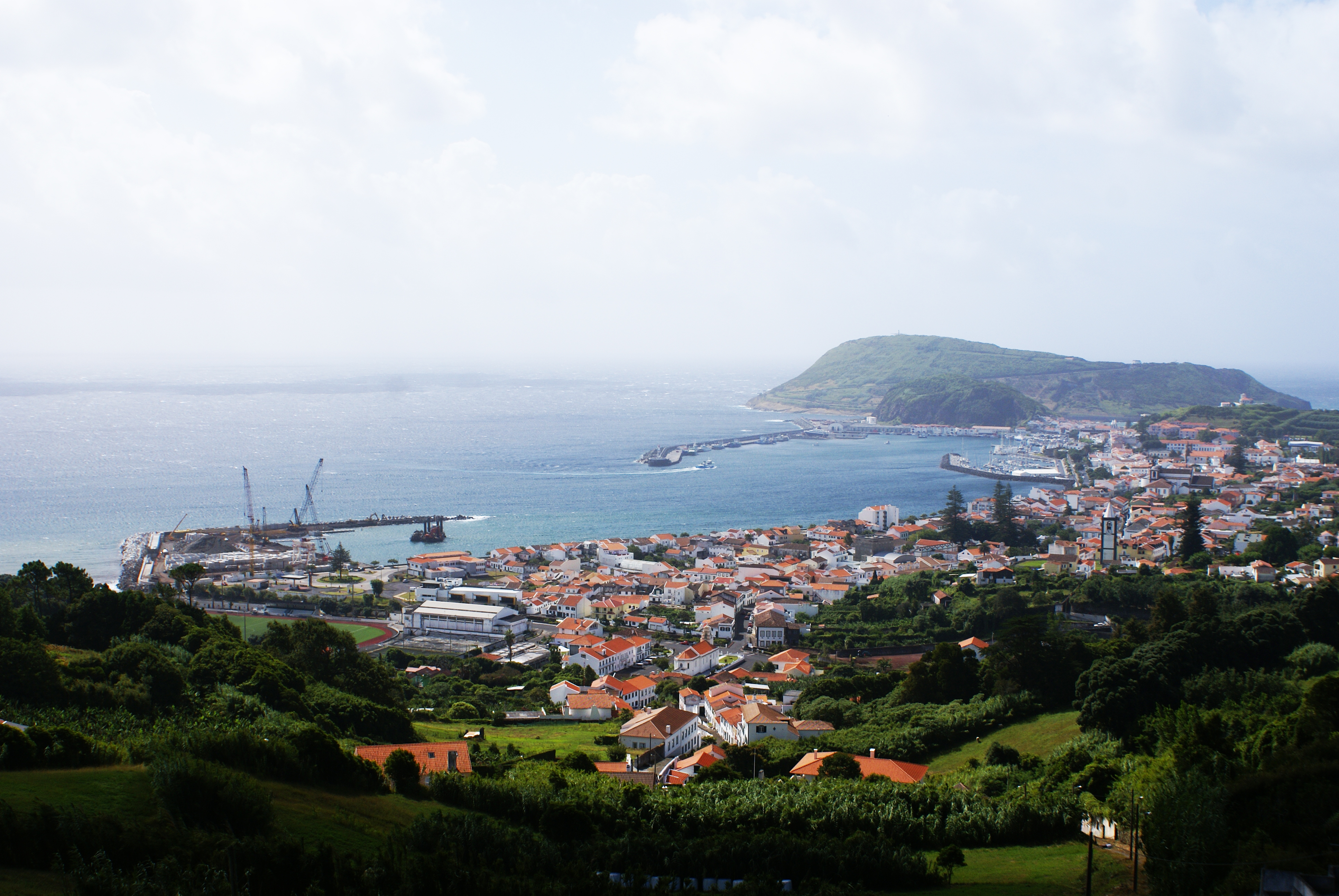 Miradouro do Pilar, junto à Ermida de Nossa Senhora do Pilar, vista parcial da cidada de Horta, Concelho da Horta, ilha do Faial, Açores, Portugal